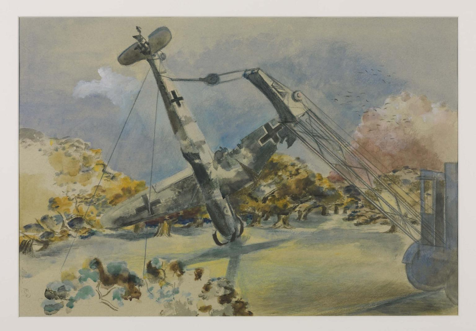 The Messerschmidt in Windsor Great Park 1940 Paul Nash 1889-1946 Presented by the War Artists Advisory Committee 1946